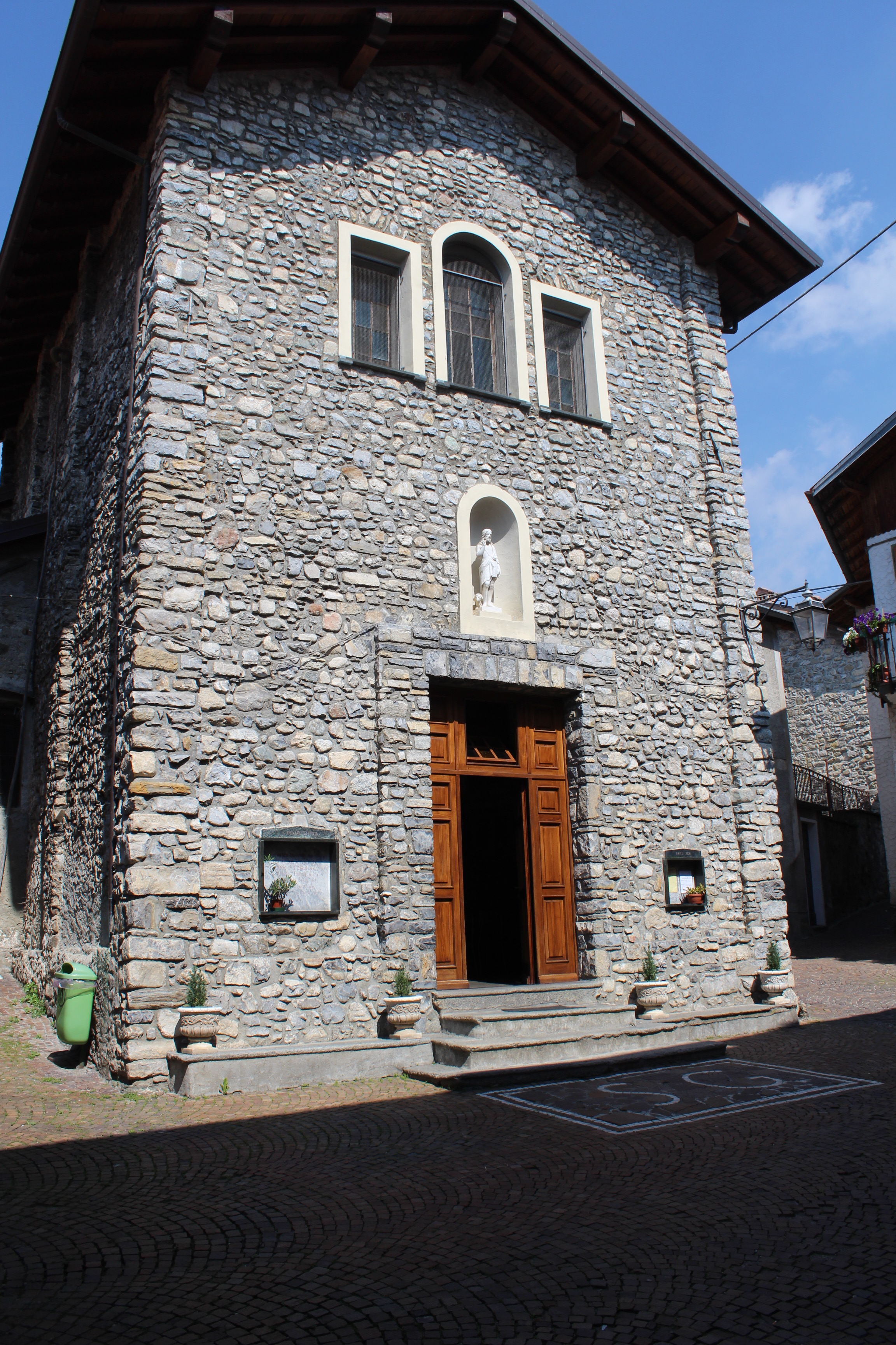 The site visit to Esino Lario and Varenna of two members of Wikimania Committee took place July 18th 2014